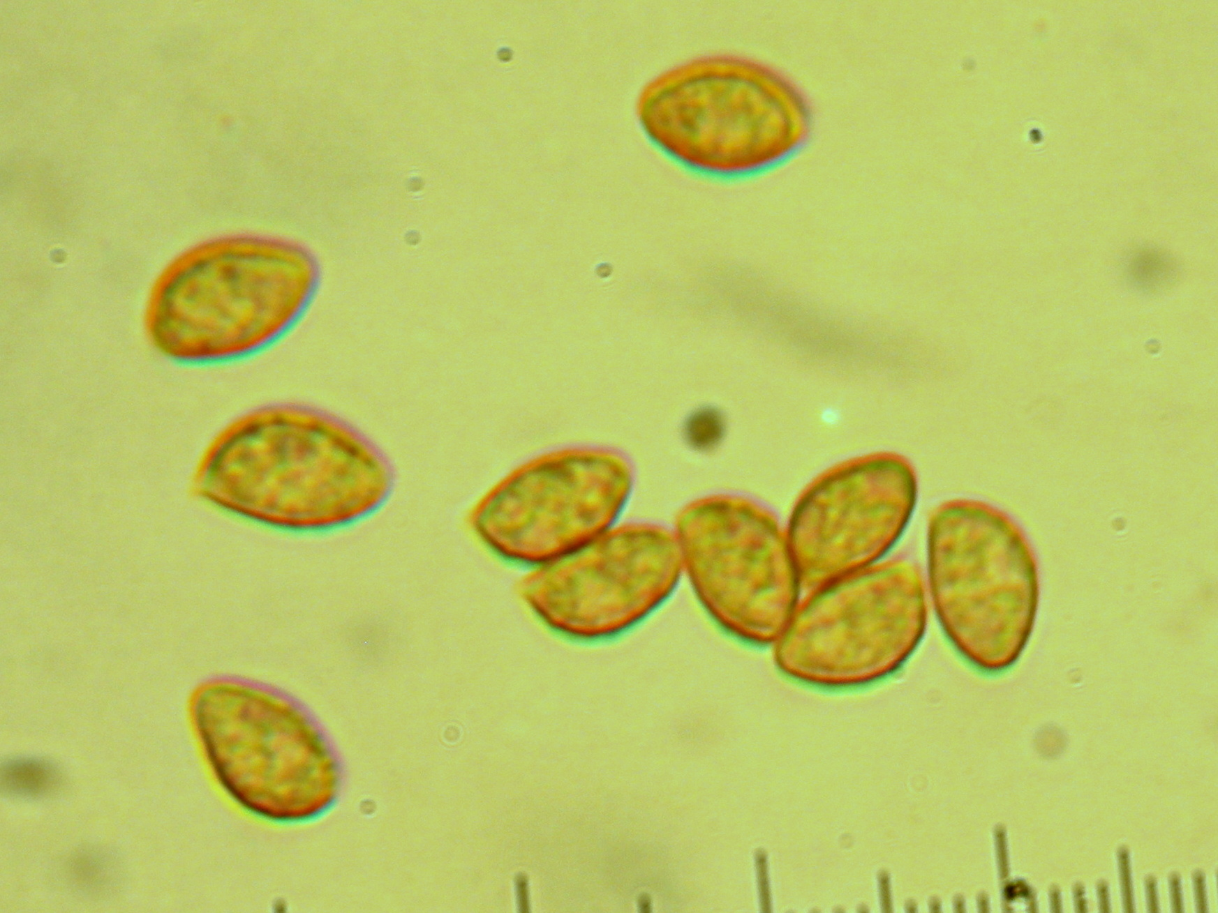 Cortinarius rubicundulus (Rea) A. Pearson Image location: Salt Point State Park, Sonoma Co., California, USA Spores ~ 6.8-8.2 X 4.1-5.0 microns and moderately rough. Caps were a little more darker reddish-orange than seen in the photos. Odor was distinctive, with a raw potato element. Recognized by sight For more information about this, see the observation page at Mushroom Observer.